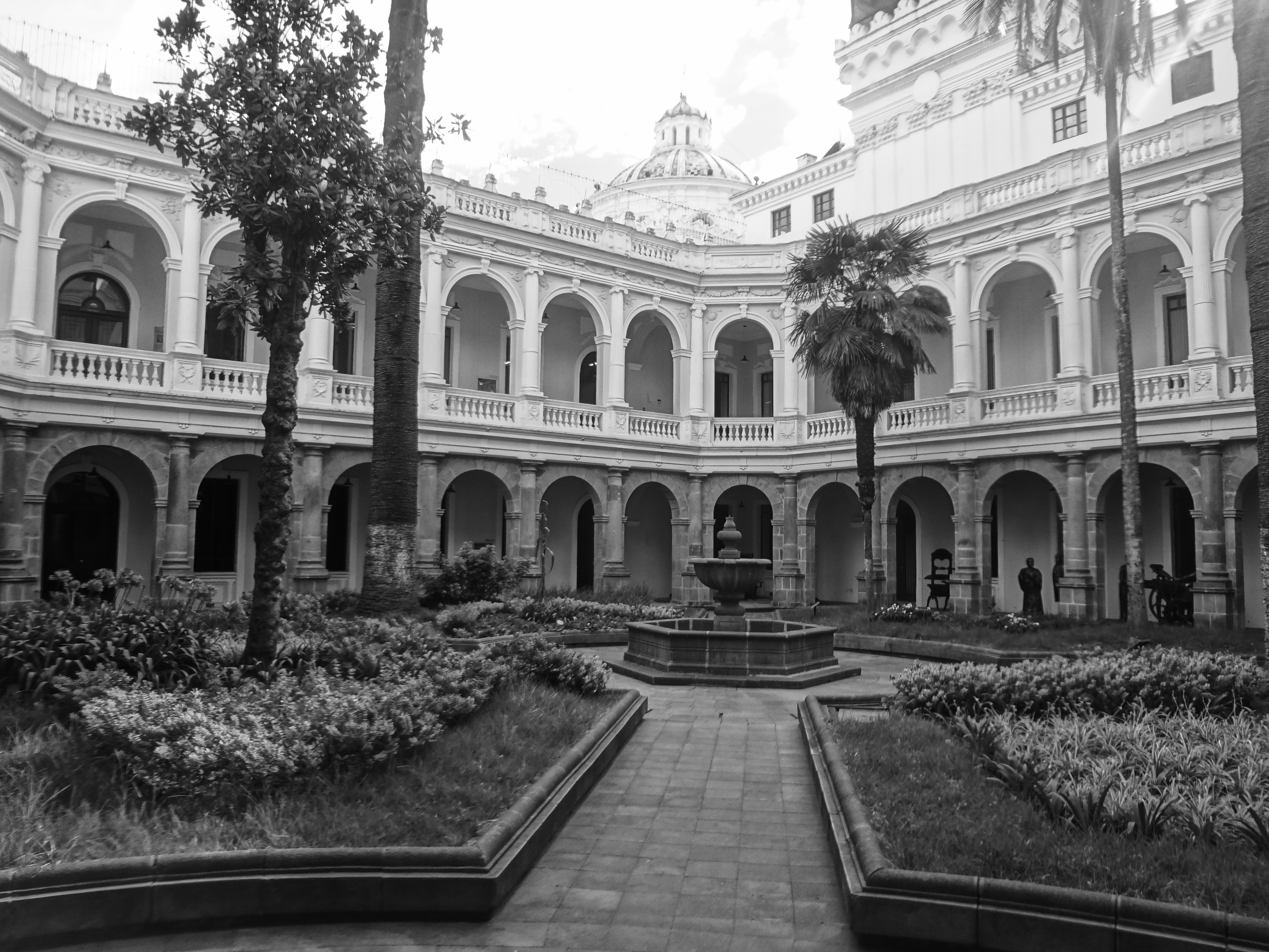 Interior photograph inside the Centro Cultural Metropolitano in the Historic Center of Quito in the Historic Center of Quito, World Heritage Site by UNESCO